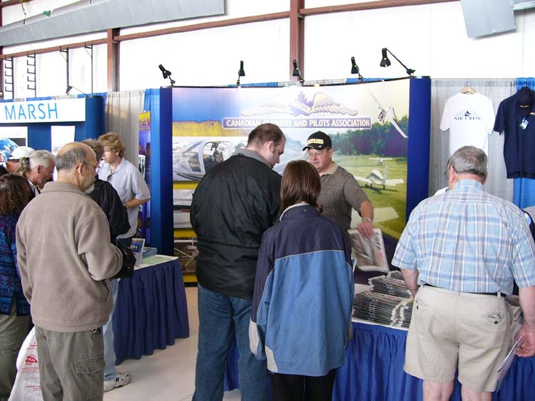 The Canadian Owners and Pilots Association booth at the Canadian Aviation Expo 2004